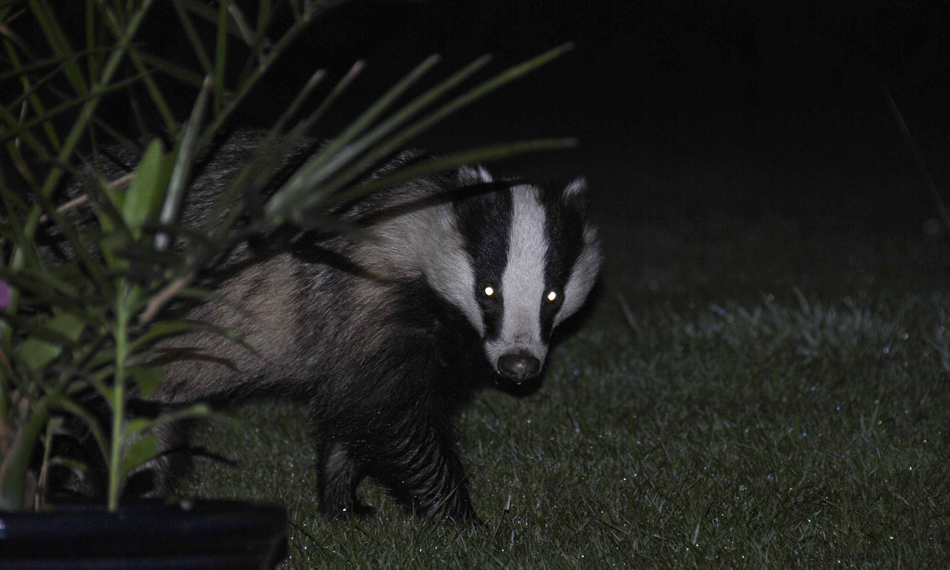 Badger coming to forage for some stale donuts left just a couple of feet from open patio doors. The badger was only a few feet away from me, incredible. The badger didn't seem to be bothered by the flash either.